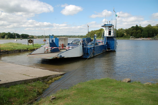 Free ferry (patrons only)! There is a hotel and golf course on Little Island near Waterford. The hotel provides a free cable ferry, across the King’s Channel, for the use of patrons.